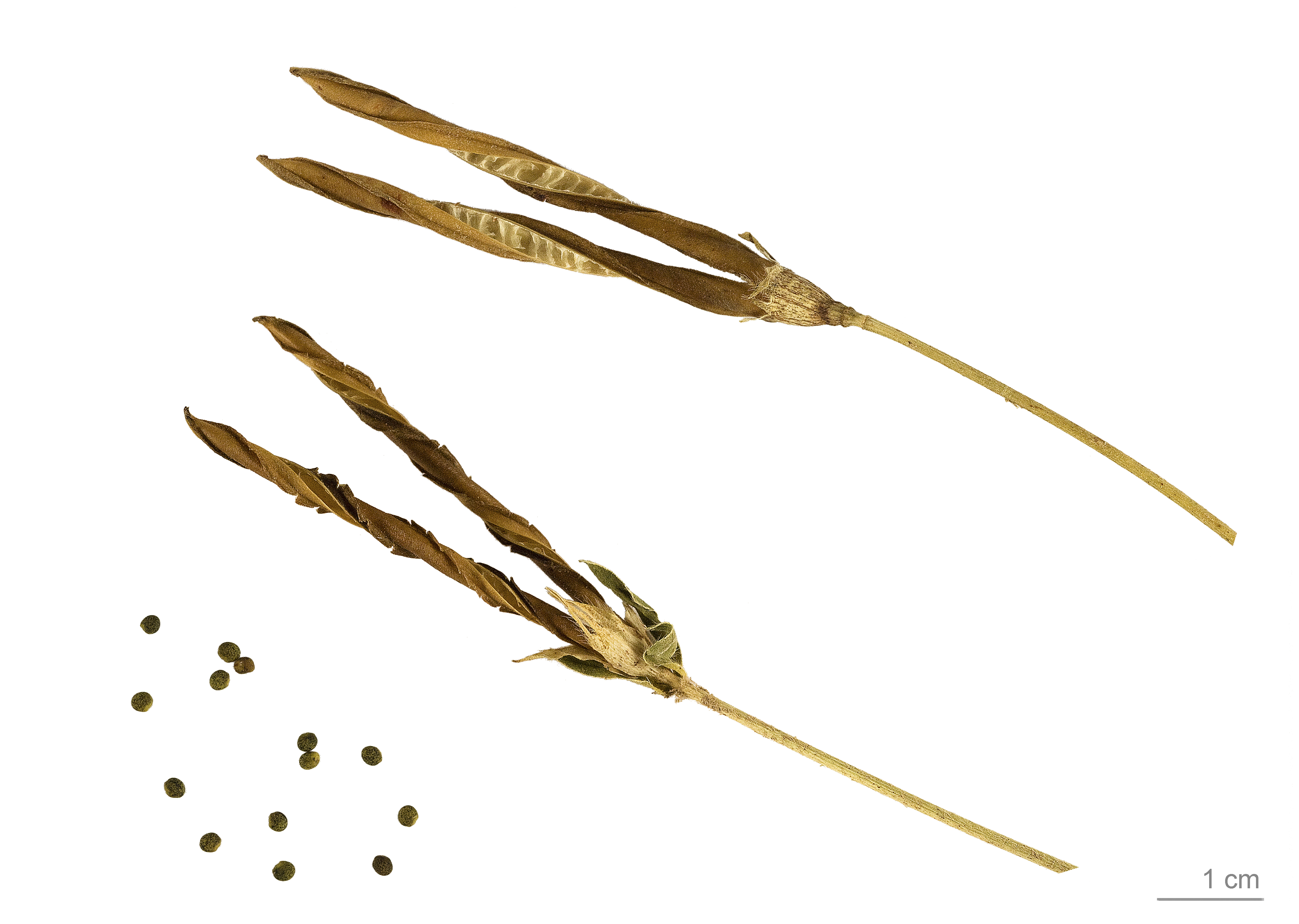 Tetragonolobus maritimus , fruits and seeds